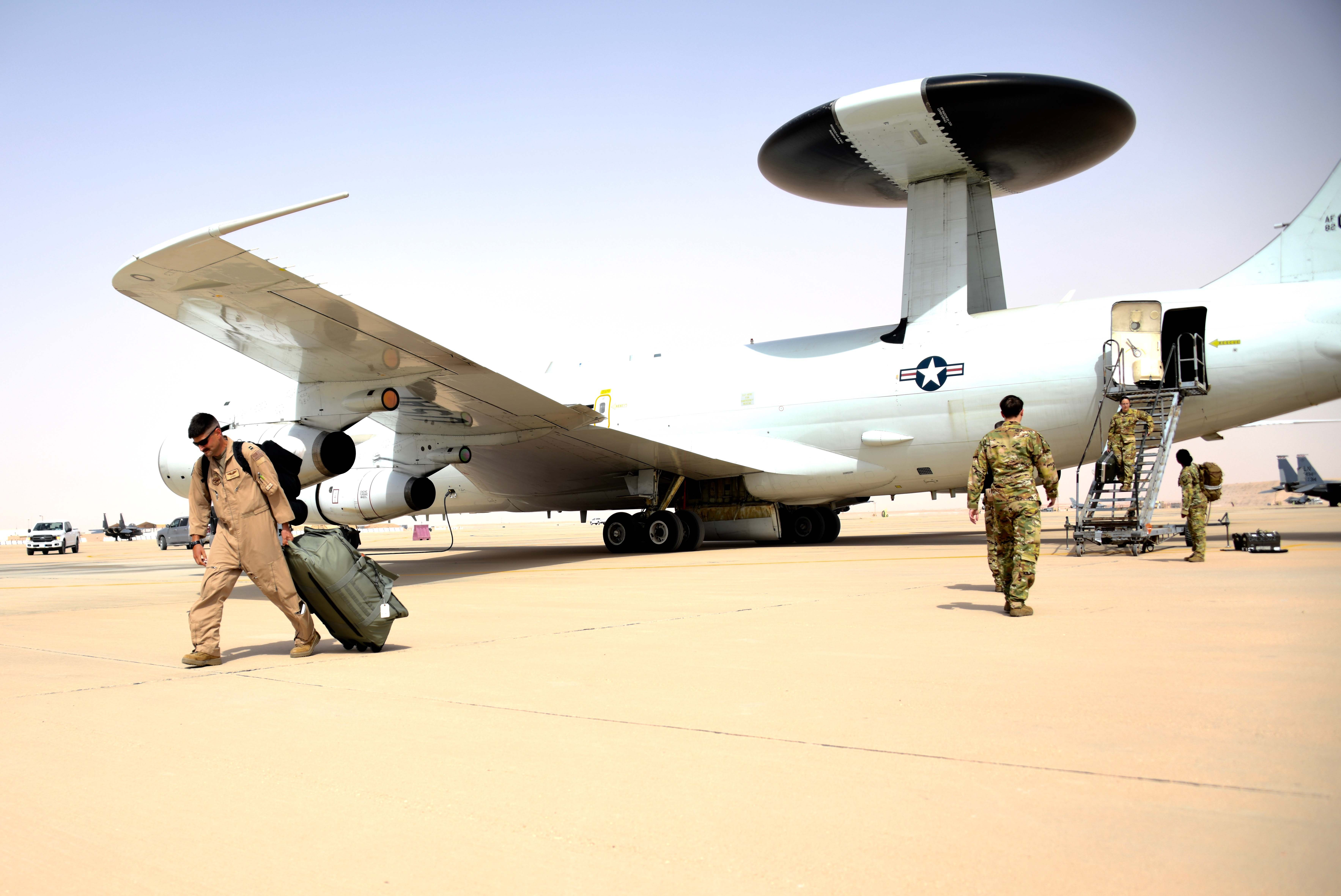 Airmen assigned to the 968th Expeditionary Airborne Air Control Squadron exit an E-3 Sentry following an arrival at Prince Sultan Air Base, Kingdom of Saudi Arabia on March 1, 2020. The E-3 forward deployed to PSAB from Al Dhafra Air Base, United Arab Emirates, as part of an agile combat employment mission meant to test their ability to conduct missions in the region from an austere location.